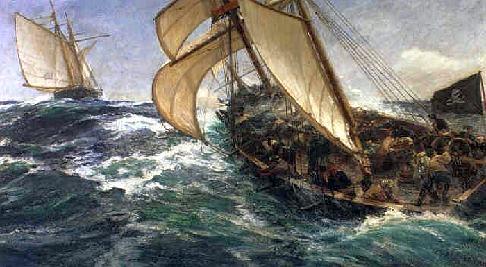 The Black Flag